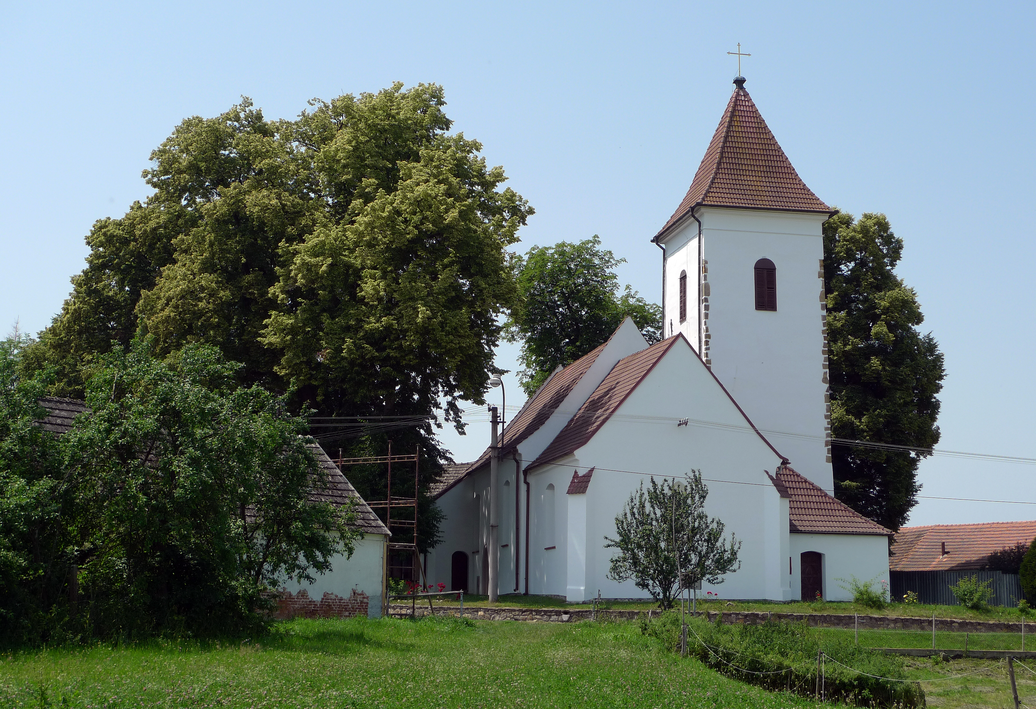 Village of Horní Bukovsko, Czech Republic, church